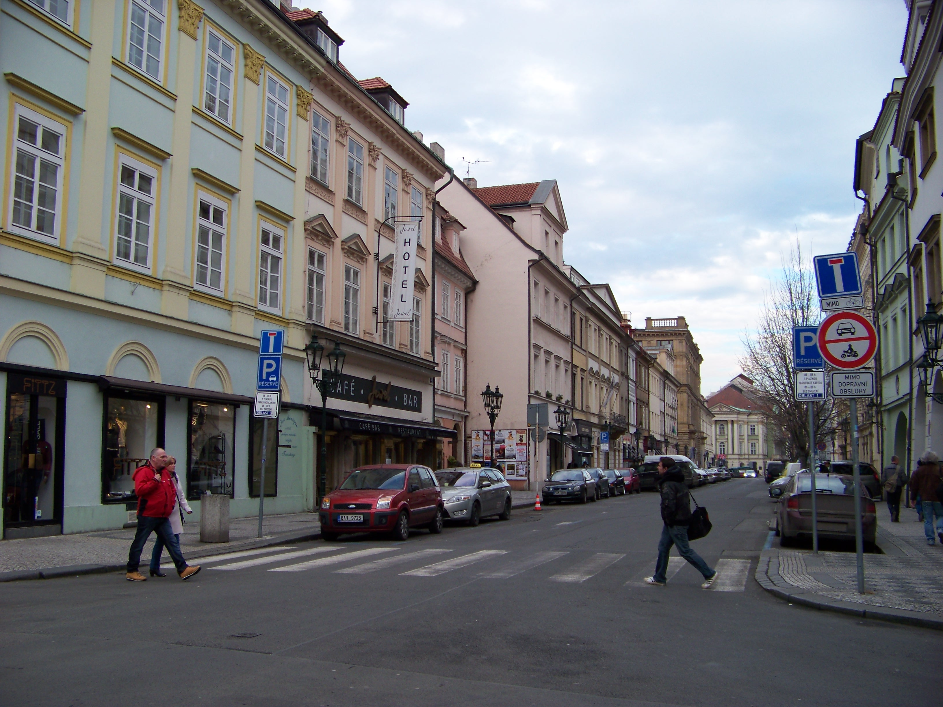 Prague-Old Town, Czech Republic. Rytířská street. - Google Maps - Google Earth